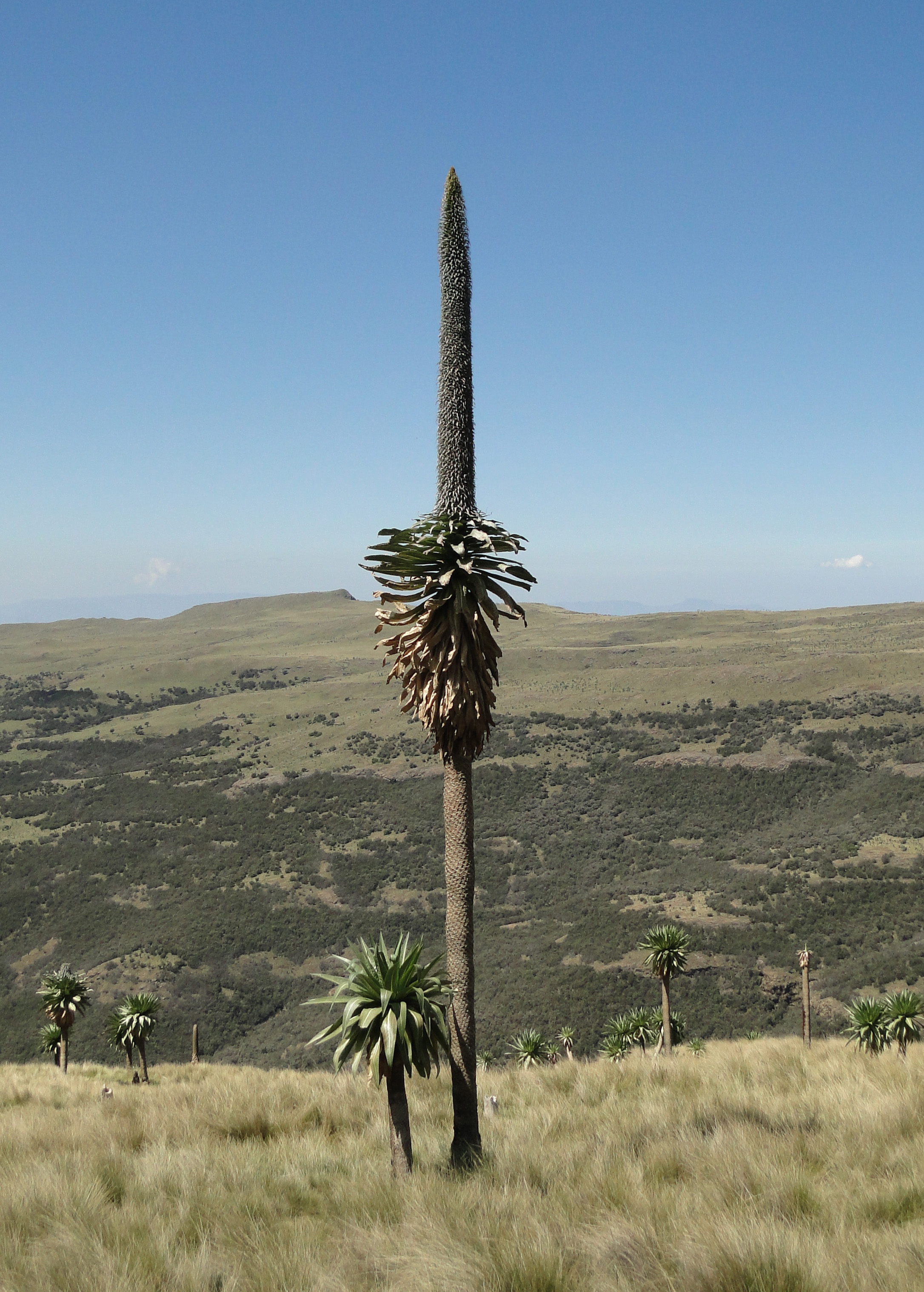 Giant lobelia (Lobelia rhynchopetalum) in the Simien Mountains National Park, Ethiopia